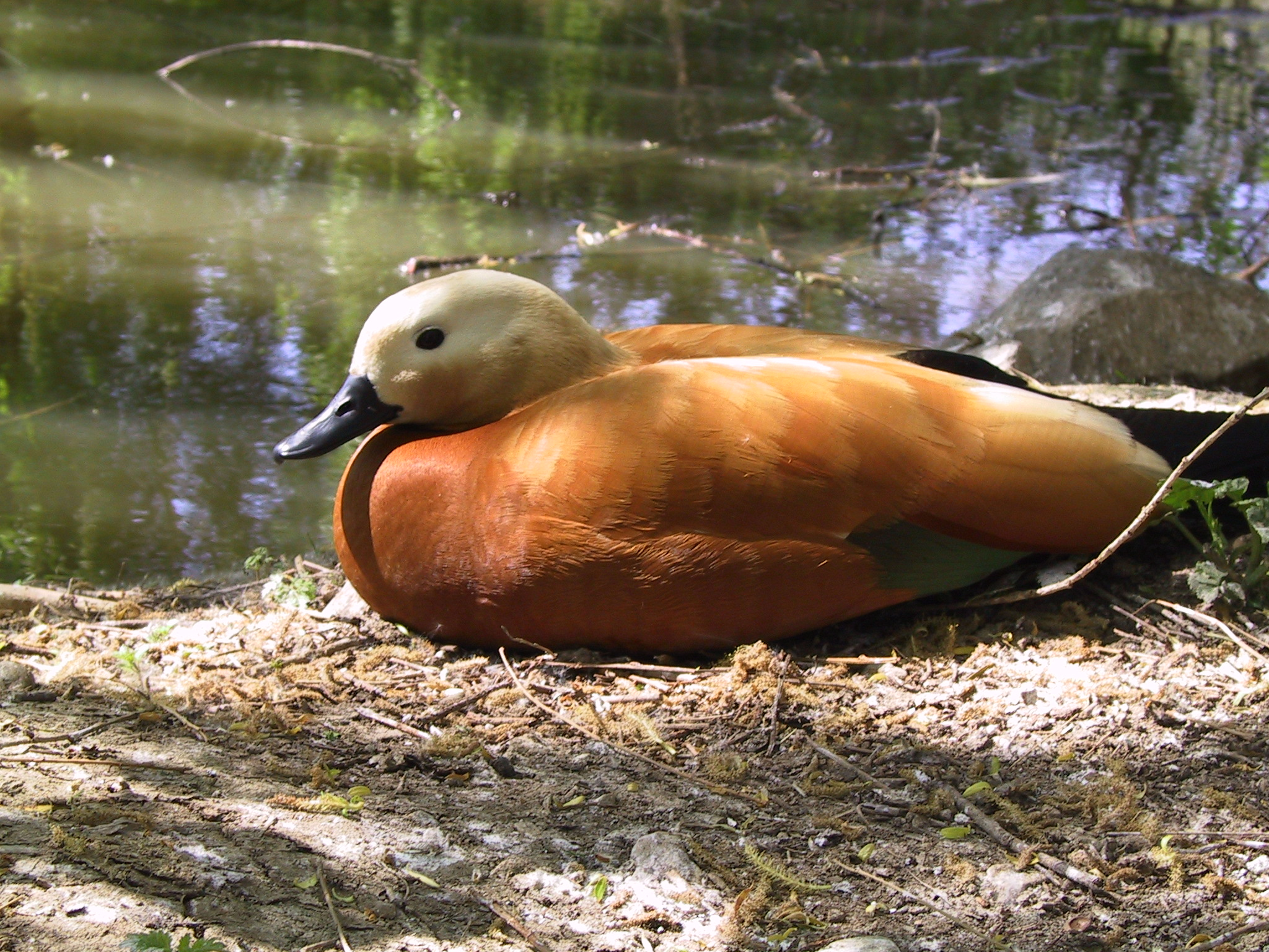 Ruddy Shelduck (Tadorna ferruginea) photo taken during April 2004 in Hunawihr, Alsace, France. Copyright © 2004 by Steven G. Johnson. Donated to Wikipedia under GFDL —Steven G. Johnson